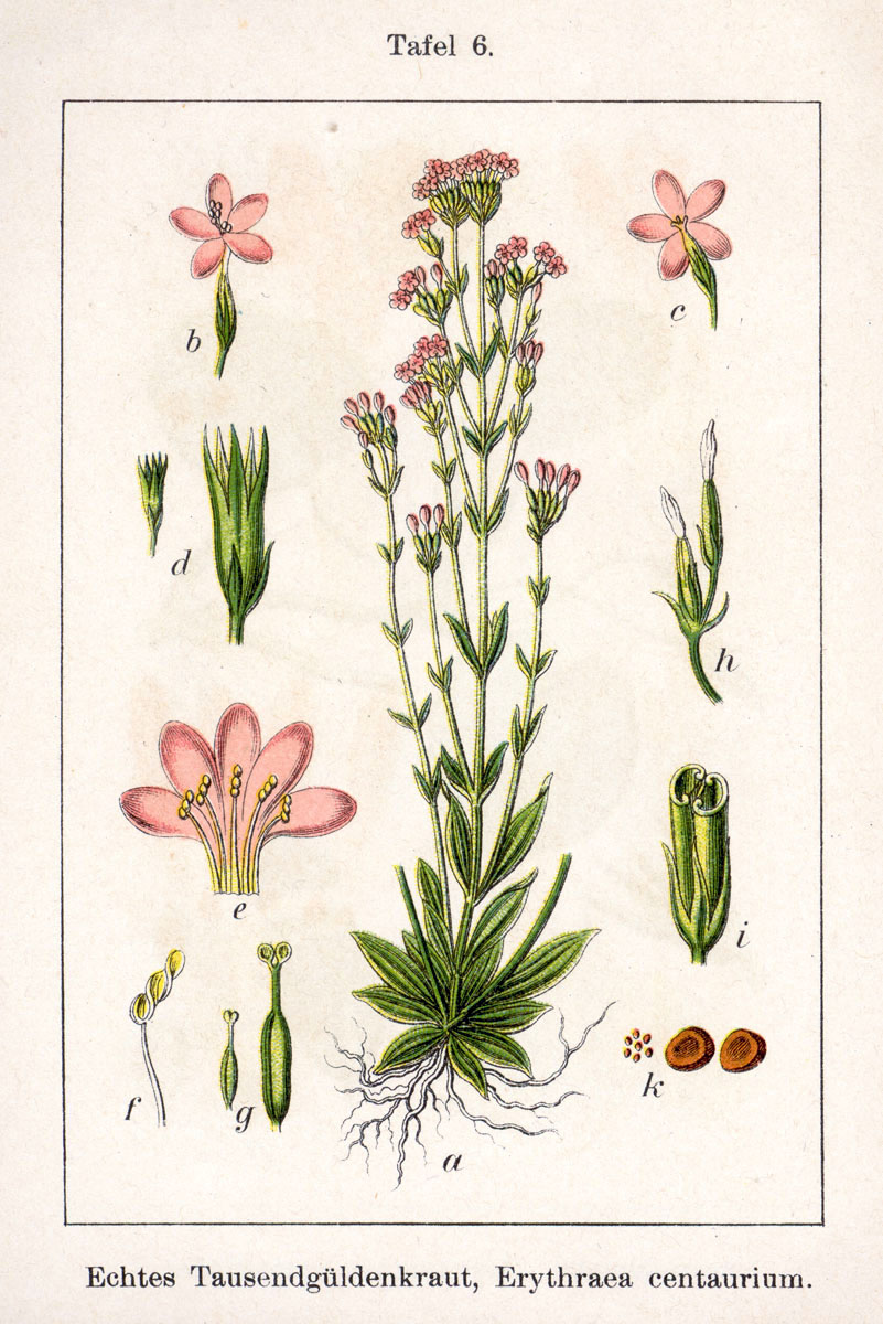 Centaurium erythraea var. erythraea, syn. Erythraea centaurium auct. Original Description Echtes Tausendgüldenkraut, Erythraea centaurium